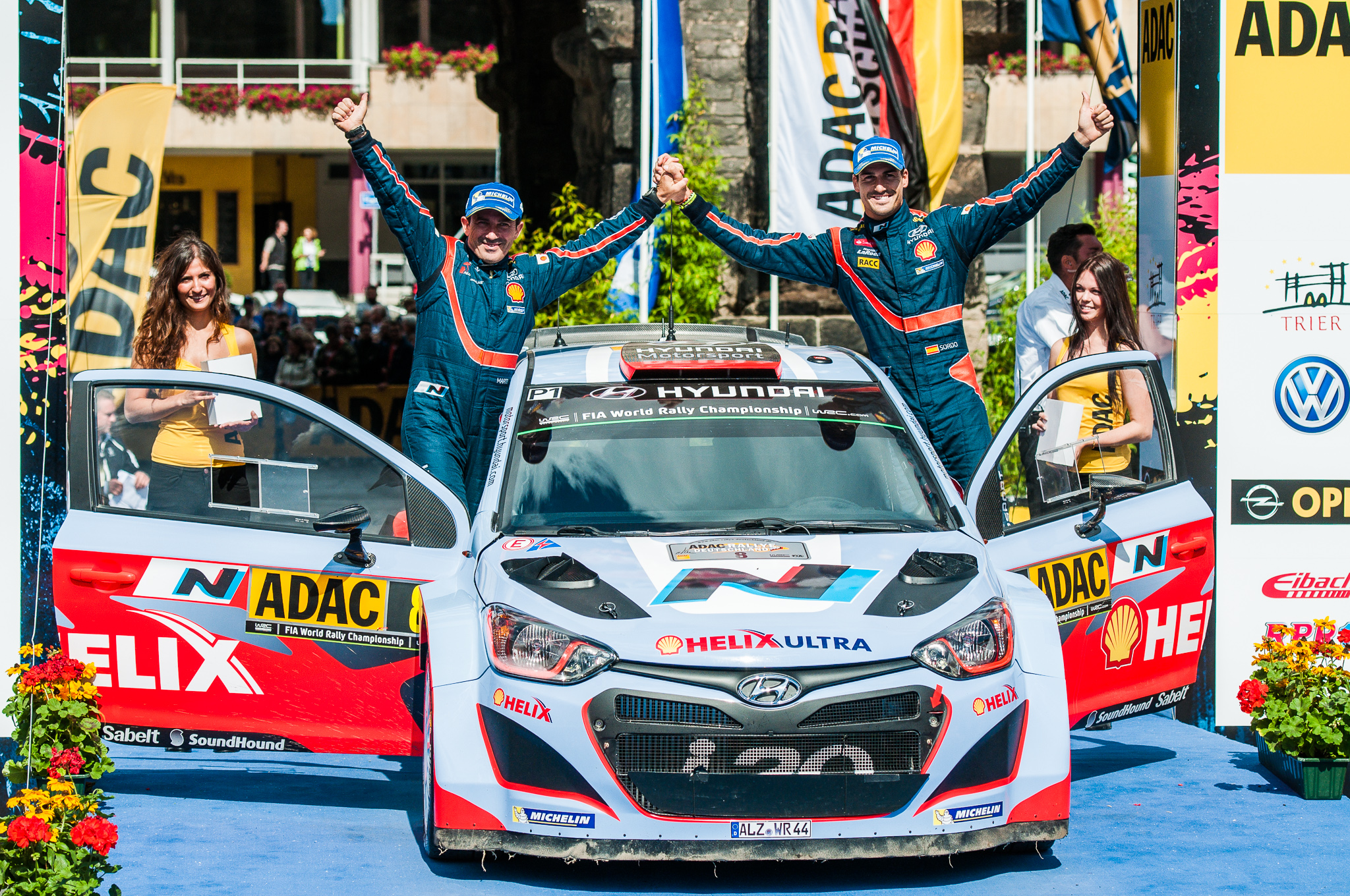 ADAC Rallye Deutschland 2014,Dani Sordo,FIA,FIA World Rally Championship,Hyundai Motorsport,Hyundai i20 WRC,Marc Marti,Motorsport,Rally,Rallye,Siegerehrung,WRC